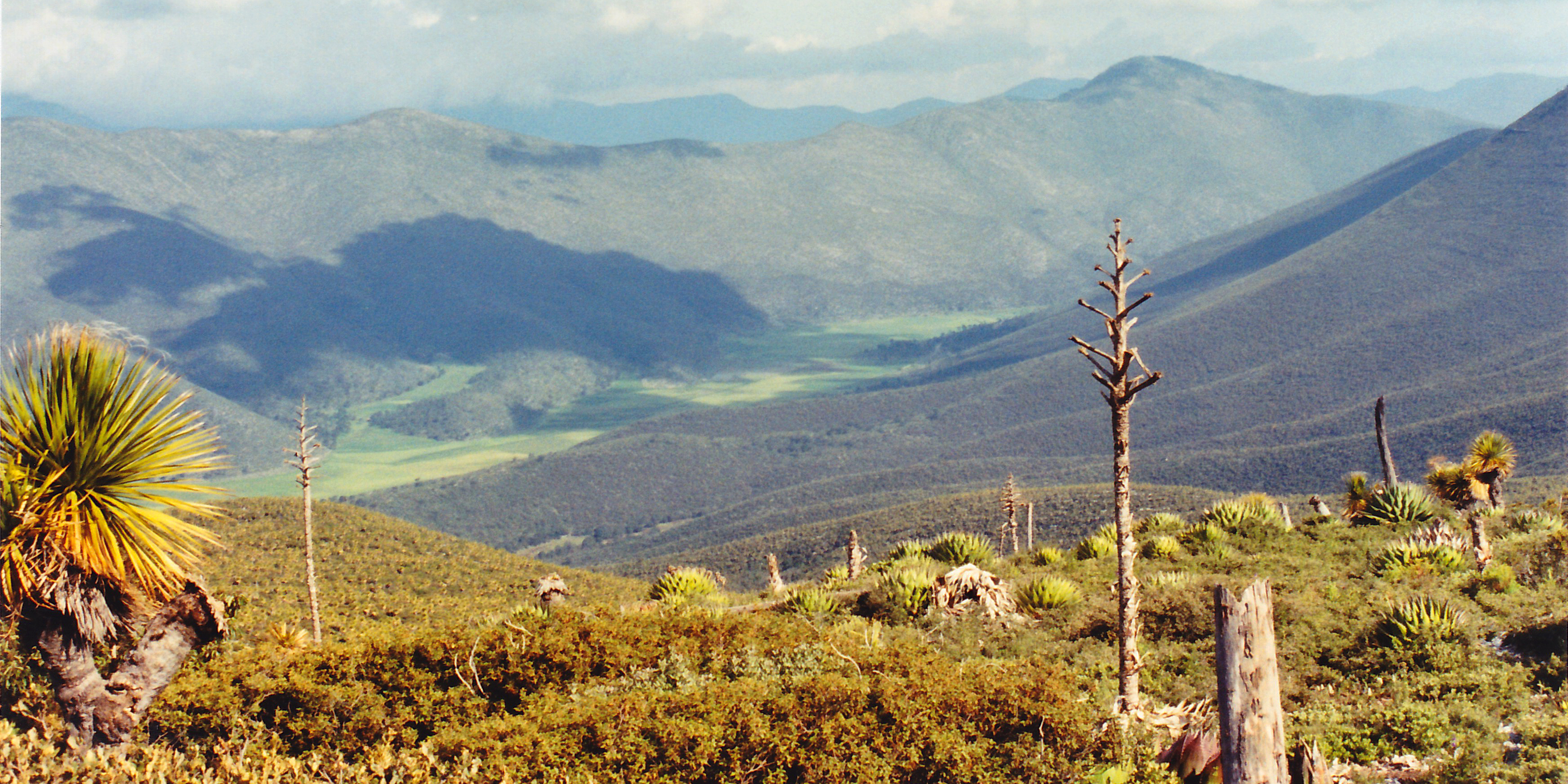 Looking down on the Marcela valley from eastern side Sierra Peña Navada (ca. 23.7599°N, 99.8535°W,3177 m. elev., looking east), Municipality of Miquihuana, Tamaulipas, Mexico. Photographed on 10 August 2003 by William L. Farr. This image was originally photographed with film and later scanned from a print.